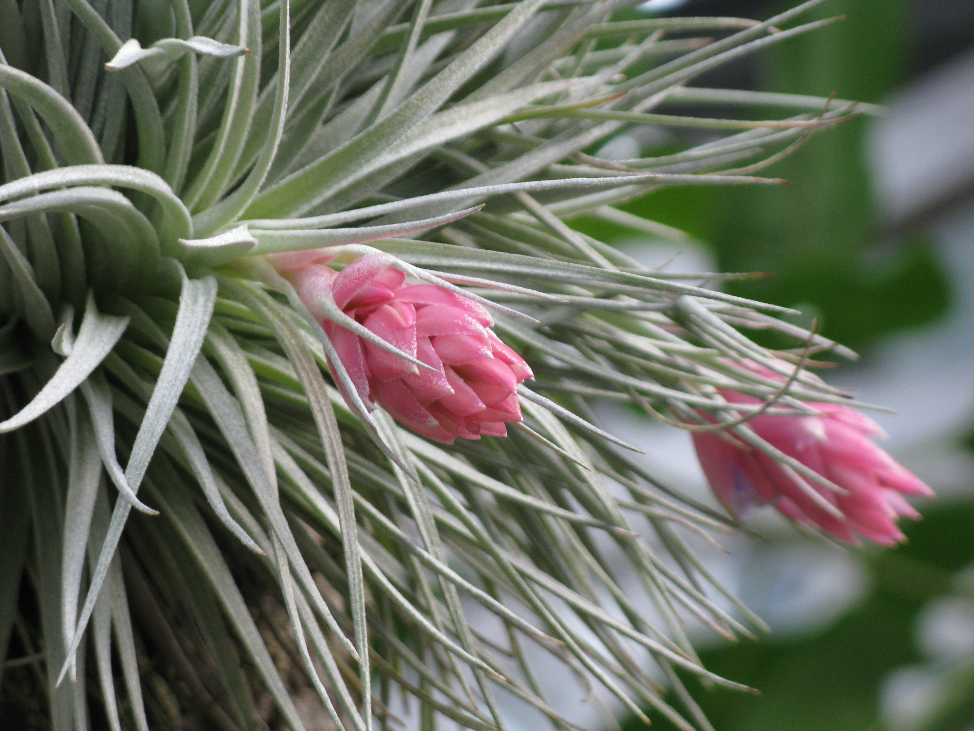 Tillandsia oaxacana Place:Osaka Prefectural Flower Garden,Osaka,Japan